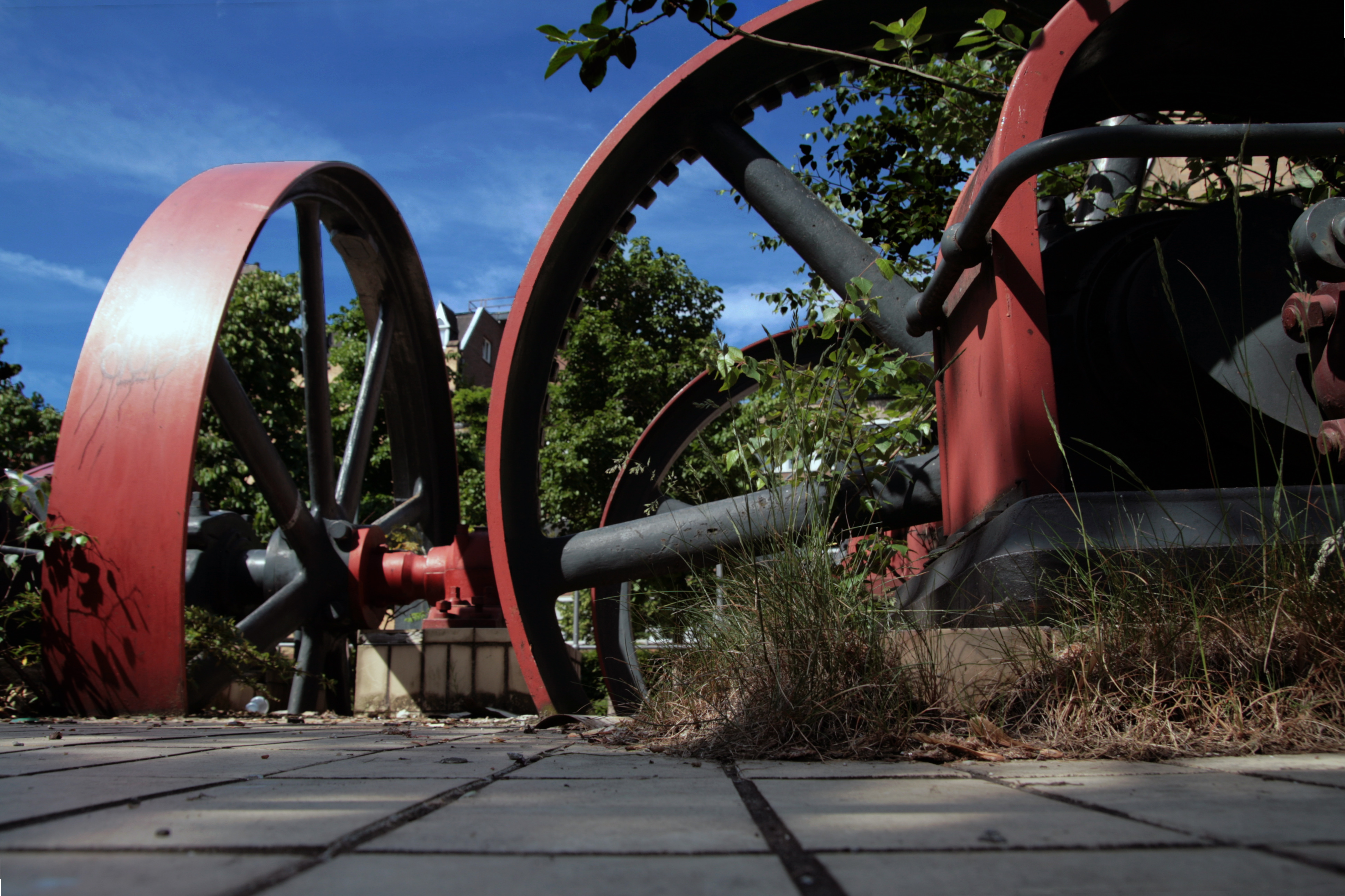 compressor wheels from the former Stollweeck chocolate factory in Cologne, Germany